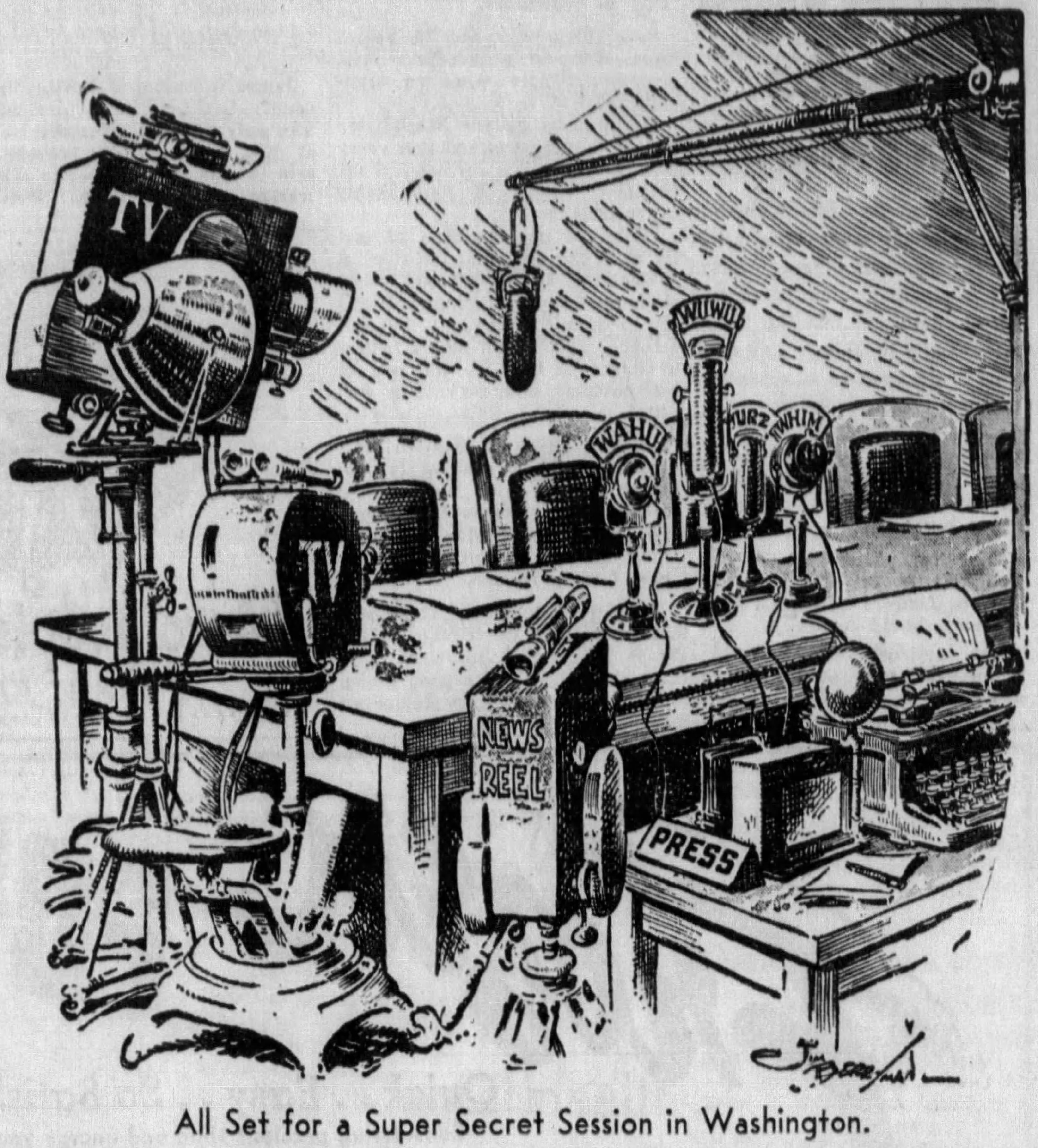 "All Set for a Super-Secret Session in Washington", an editorial cartoon commenting on the hunger for publicity of American politicians. Winner of the 1950 Pulitzer Prize for Editorial Cartooning.